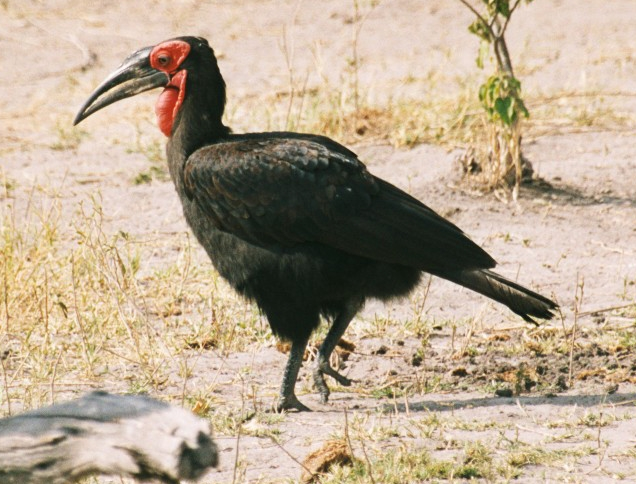 Southern Ground-hornbill in Moremi National Park, Okavango Delta, Botswana. Image by Duncan Wright